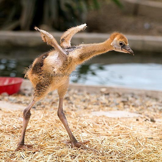 Birthday of a grey crowned crane chick in Tehran Birds Garden.